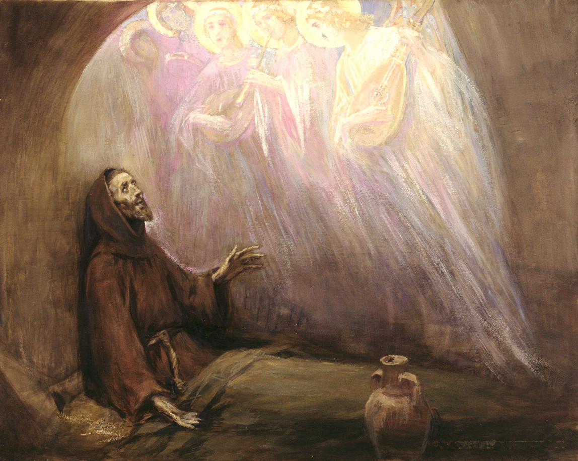 Un coro de ángeles, con sus melodías ahuyenta los pesares de San Francisco.